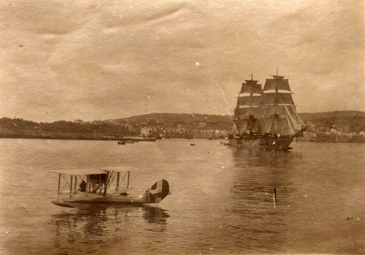 RN Cristoforo Colombo. The original picture, scanned by Emiliano Burzagli, belongs to the Private archive of Burzaghi family, Italy.